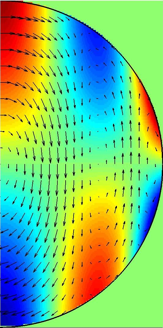 Cross section of an inertial mode in a sphere. Arrows show the flow direction and strength in the plane. Red indicates flow out of the plane; blue indicates flow into the plane. The axis of rotation is at left.